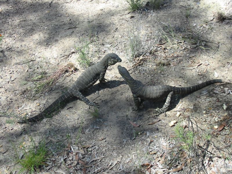 Varanus varius. Aggressive display preceding a ritualised combat.